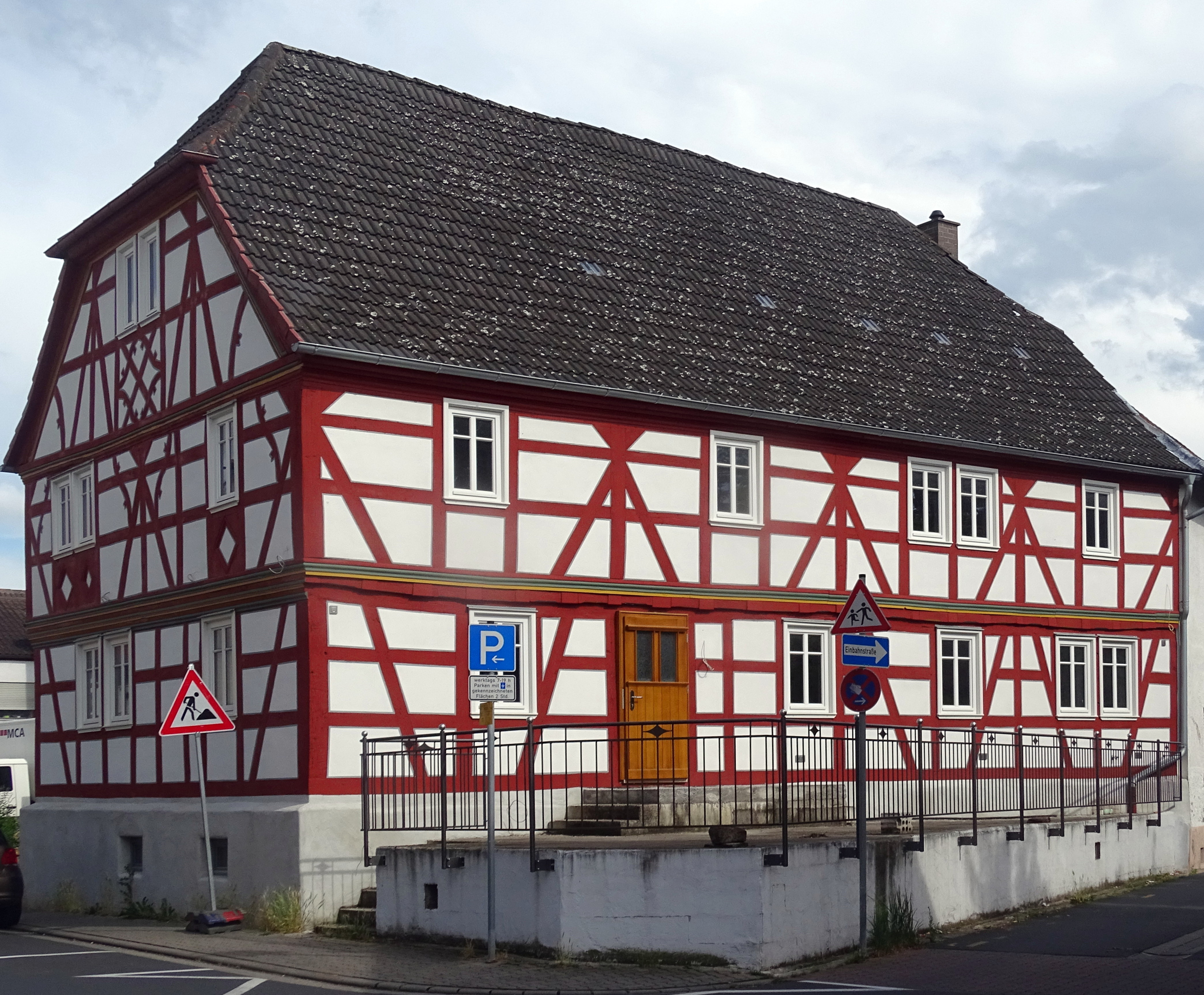 Half-timbered house in Kahl am Main, Hauptstraße 4